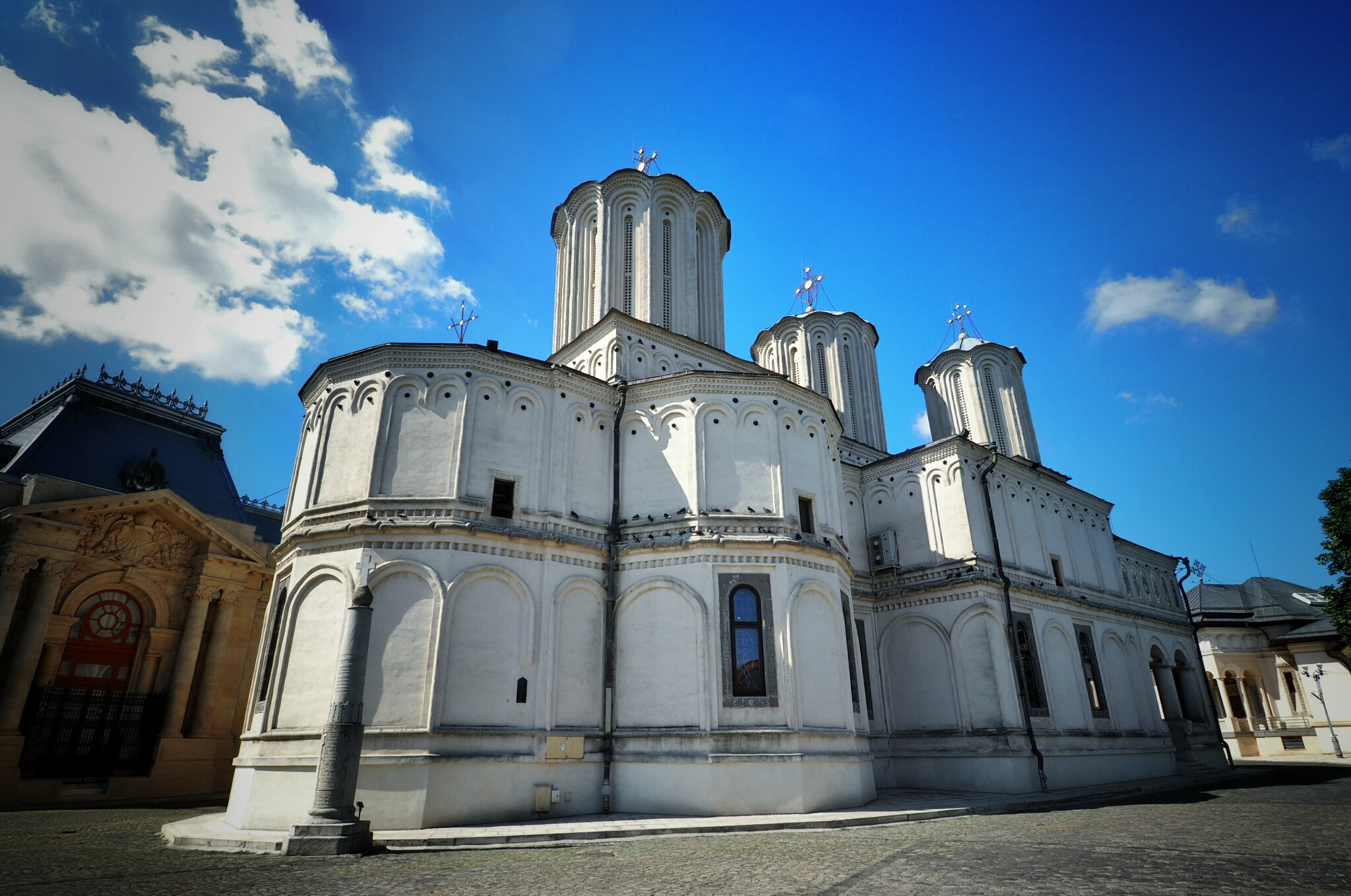 Bucharest, Romania Find out more about Bucharest: DiscoverBucharest